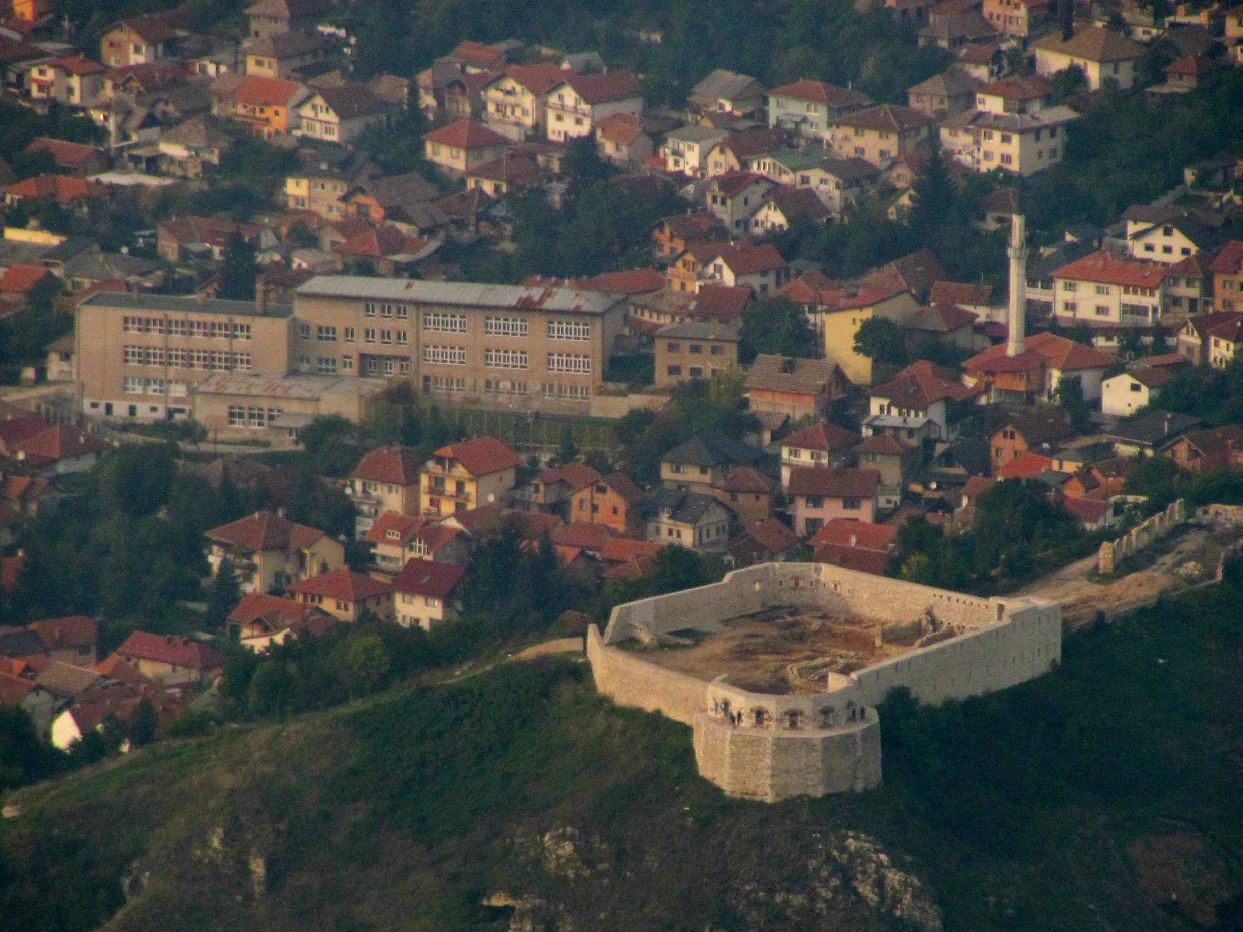 The ruined castle of Bijela Tabija ("White Bastion" in English) in the very east of Sarajevo, as seen from the near top of the Trebević mountain. The surrounding neighbourhood is named Vratnik.